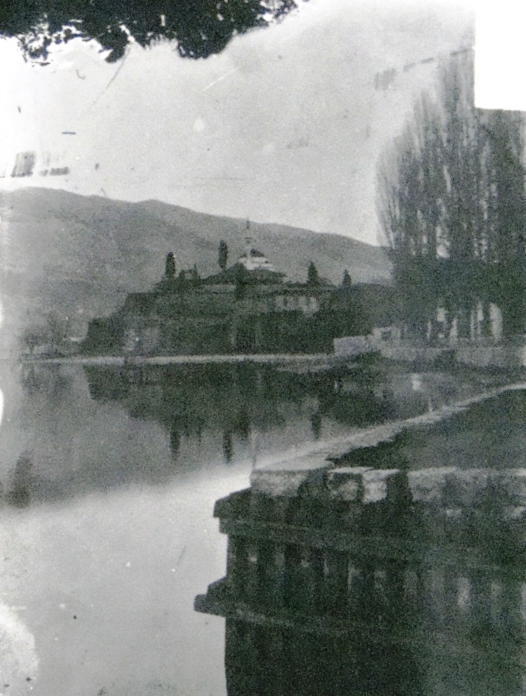 Castroto, the fortress of Ali Pasha of Ioannina in Ioannina, 1899 This media file is produced by Wikipedian in Residence in Category:Wikipedian in Residence at DARM in 2016.